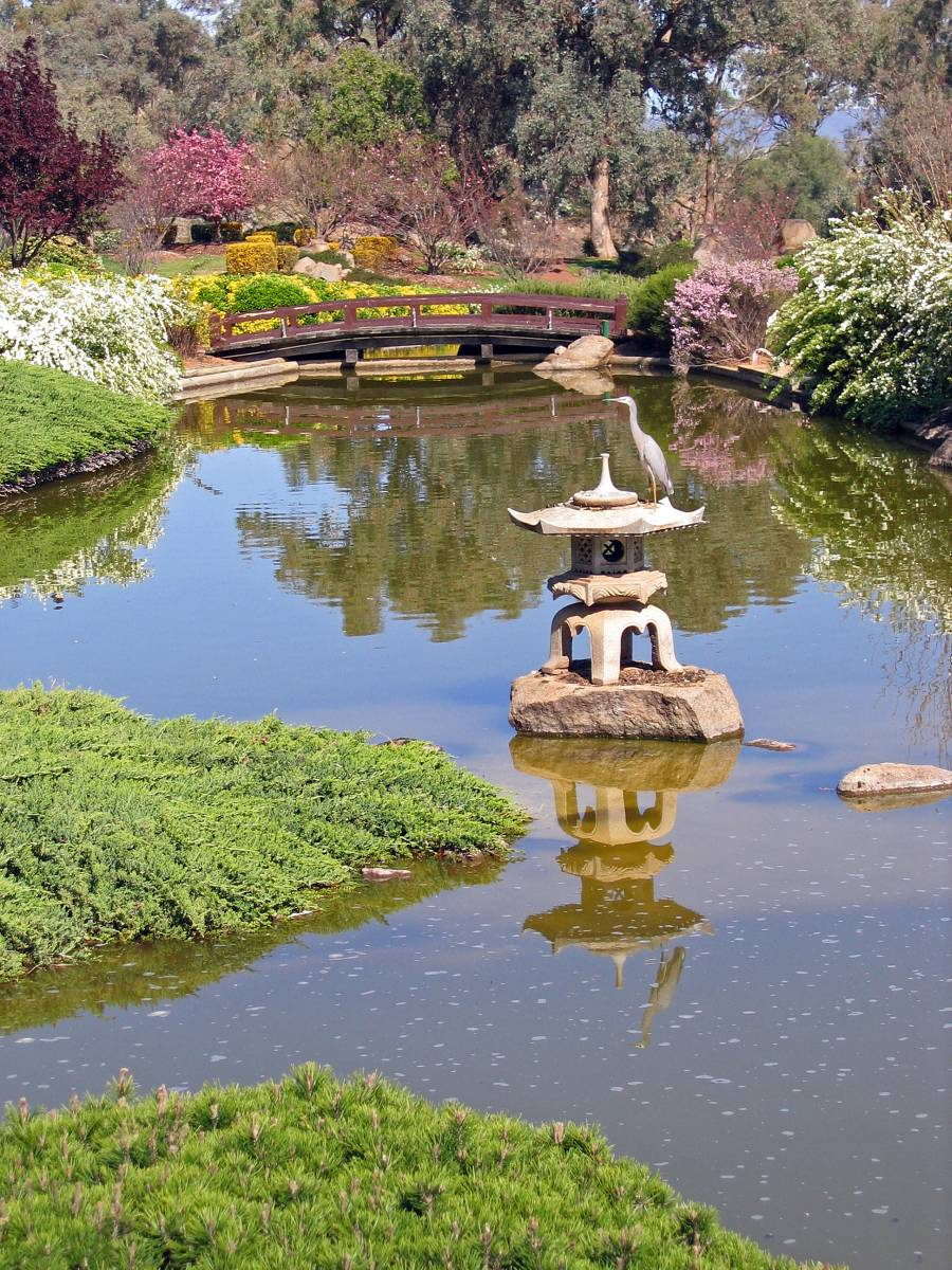 Stone lantern with egret and spring blossoms in lake at the Japanese Gardens, Cowra, NSW, Australia, 22 September, 2006.